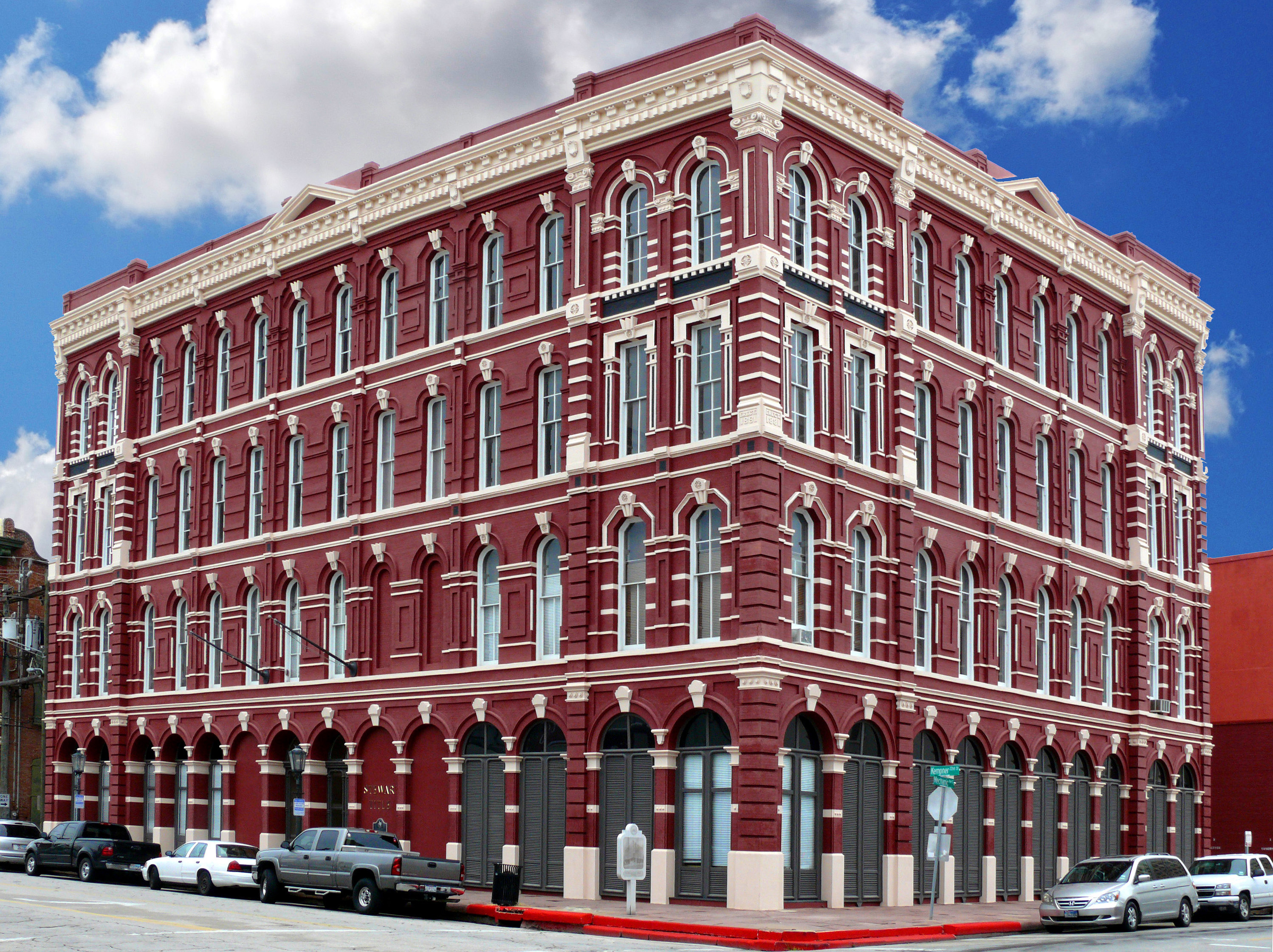 Julius Kauffman (1856-1935) and Julius Runge (1851-1906), second generation owners of a commission firm established in 1842, had architect Eugene T. Heiner design this renaissance revival building in the north Italian mode. Contractor Robert Palisser completed the structure in 1882. Then known as the world's foremost cotton exporters and the initiators of coffee imports from Brazil, Kauffman-Runge also brought significant numbers of settlers to Texas. They housed commodities on the building's ground floor, and had offices above. Many highly-respected Galveston firms had business quarters here. In 1905 the property was bought by Maco Stewart (1871-1938), who redesigned the interior to create a gallery effect with an arched skylight on the top floor. A foresighted, dynamic lawyer, Maco Stewart in 1908 founded Stewart Title Guaranty Company, in 1978 it was the largest title firm in Texas. Throughout expansion across the United States, it continuously had offices in this structure of its origin. Stewart Title Company has restored the building, replacing the ornate cornice which had been missing since the famous 1900 Galveston storm